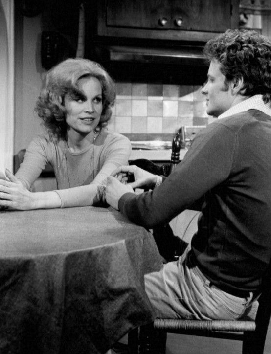 Photo of Gail Brown (Clarice Hobson) and William Russ (Burt McGowan) from the daytime drama Another World.